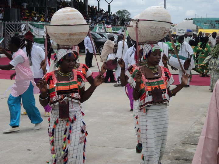 Pictures from the closing ceremony of National Festival of Arts and Culture (NAFEST) 2010 in Uyo, Akwa Ibom state Nigeria. This is an image of Cultural Fashion or Adornment from Nigeria